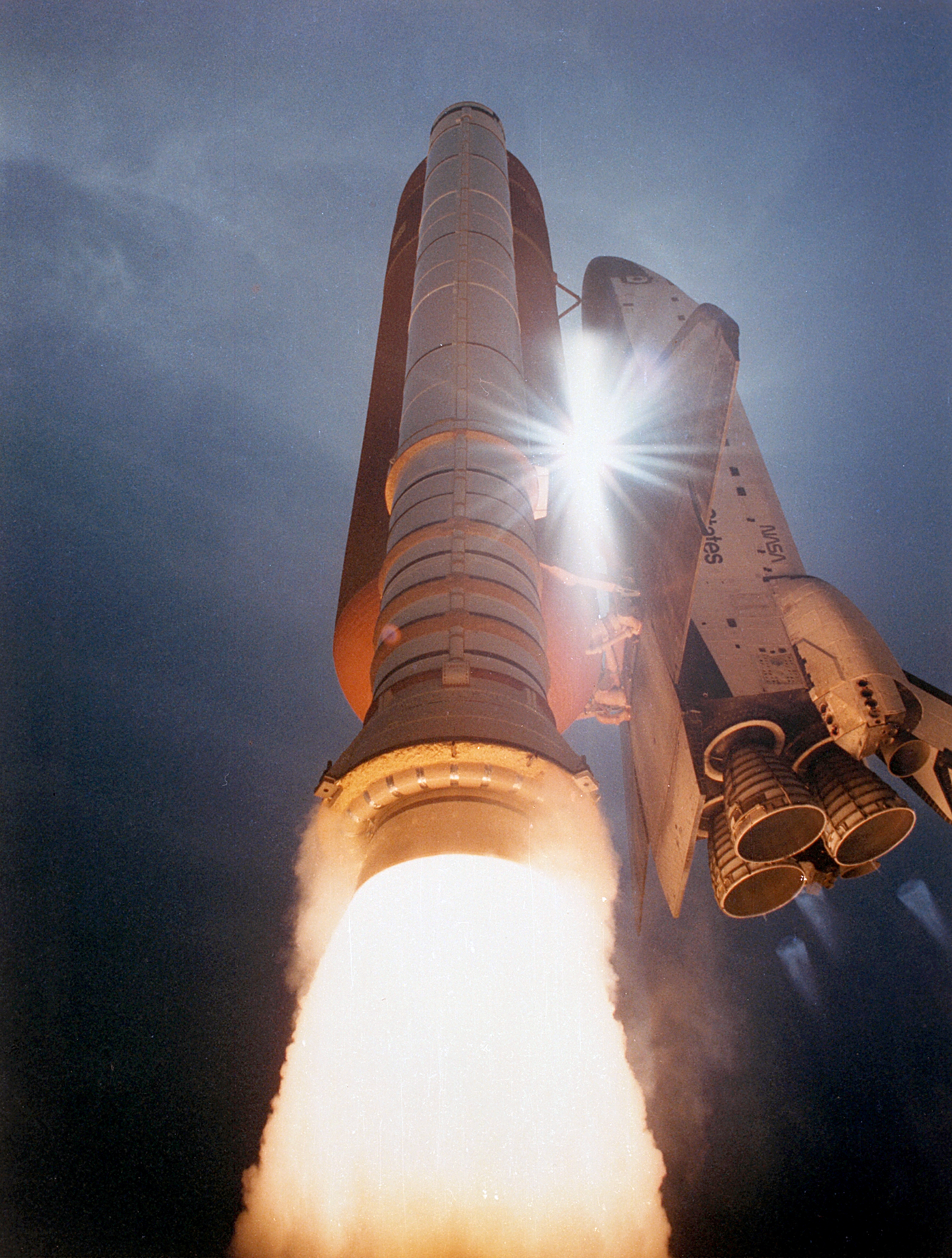 The Space Shuttle Atlantis streaks skyward as sunlight pierces through the gap between the orbiter and ET assembly. Atlantis lifted off on the 42nd space shuttle flight at 11:02 a.m. EDT on August 2, 1991 carrying a crew of five and TDRS-E. A remote camera at the 275-foot level of the Fixed Surface Structure took this picture.